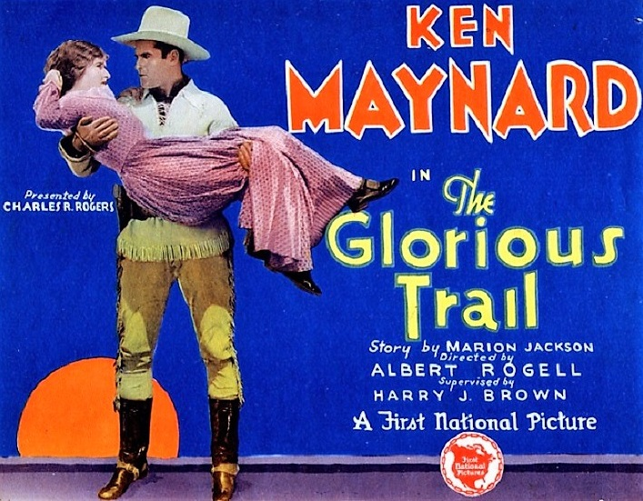 Poster del film The Glorious Trail (1928).